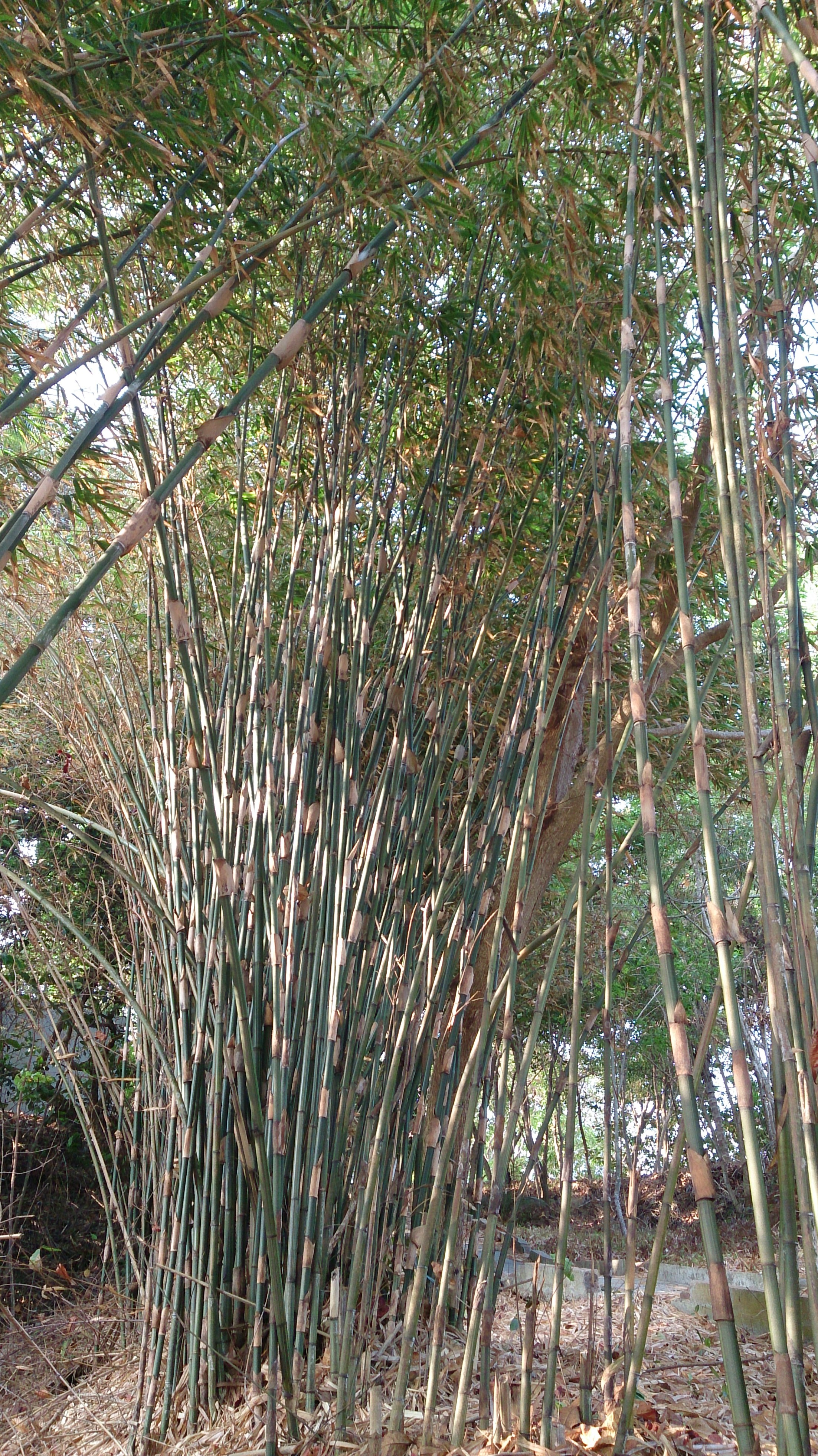 Bamboo